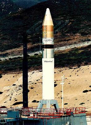 Lockheed Launch Vehicle (LLV), later renamed Lockheed-Martin Launch Vehicle (LMLV) but more commonly called the Athena 1 launch vehicle, sits on the "milkstool" stand placed upon the space shuttle launch mount at Space Launch Complex Six (SLC-6) at Vandenberg Air Force Base in northern Santa Barbara County.